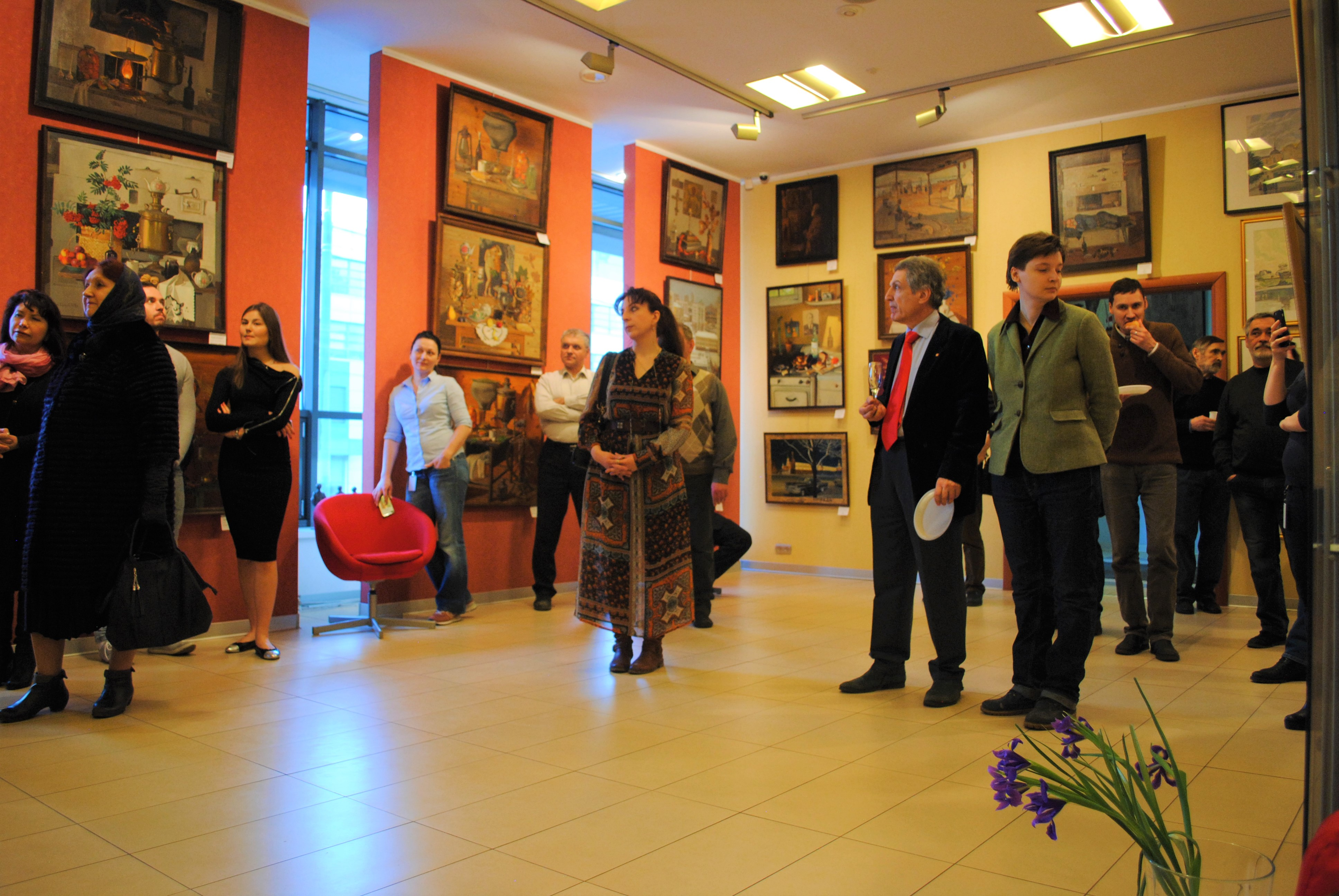 Kubarev Livny